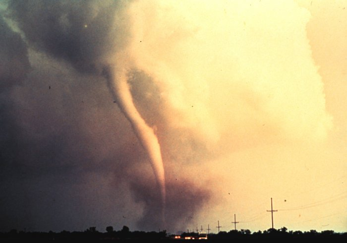 Tornado in action